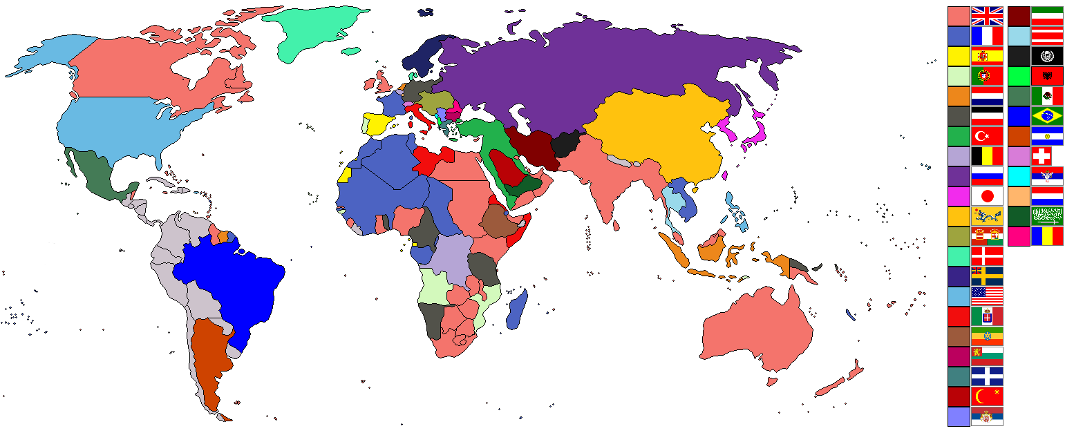 Taken from old colonialism wikipedia map and outlined. Dated around 1900 (shows Italian - although the flag is not correct - North Africa post 1910 and Austro-Hungarian Empire circa WW1). British territories of Canada, Australia, New Zealand and South Africa would later become dominions. Nations involved with imperialism, directly or indirectly, are coloured. Meant to portray the world around the time of WWI. In case anyone wonders, the red flag with the yellow crescent and star is the Rashidi house and their allies. Below them are the Saudis and their allies. Grey countries may be smaller empires (Nepal and Bhutan) or have extended their geopolitical boundaries over unsettled/inhabitated areas (i.e. Latin America such as Chile acquired Easter Island and the Antarctic Peninsula).